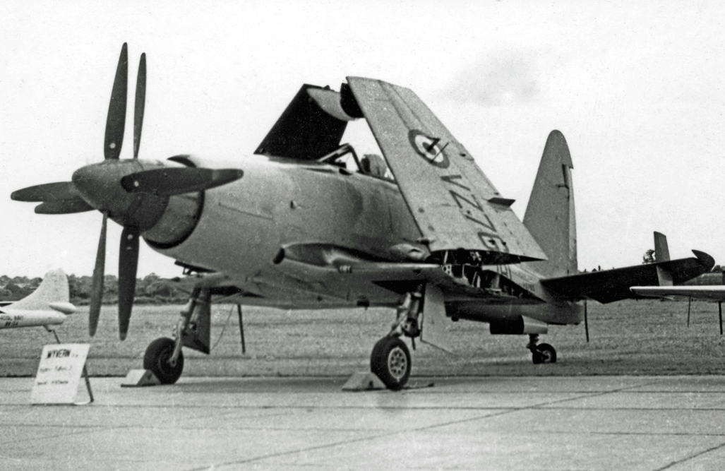 Westland Wyvern S.4 of 813 Naval Squadron at RNAS Stretton, Cheshire, in 1955